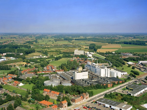 Citrique Belge, chemical company in Tienen, Belgium